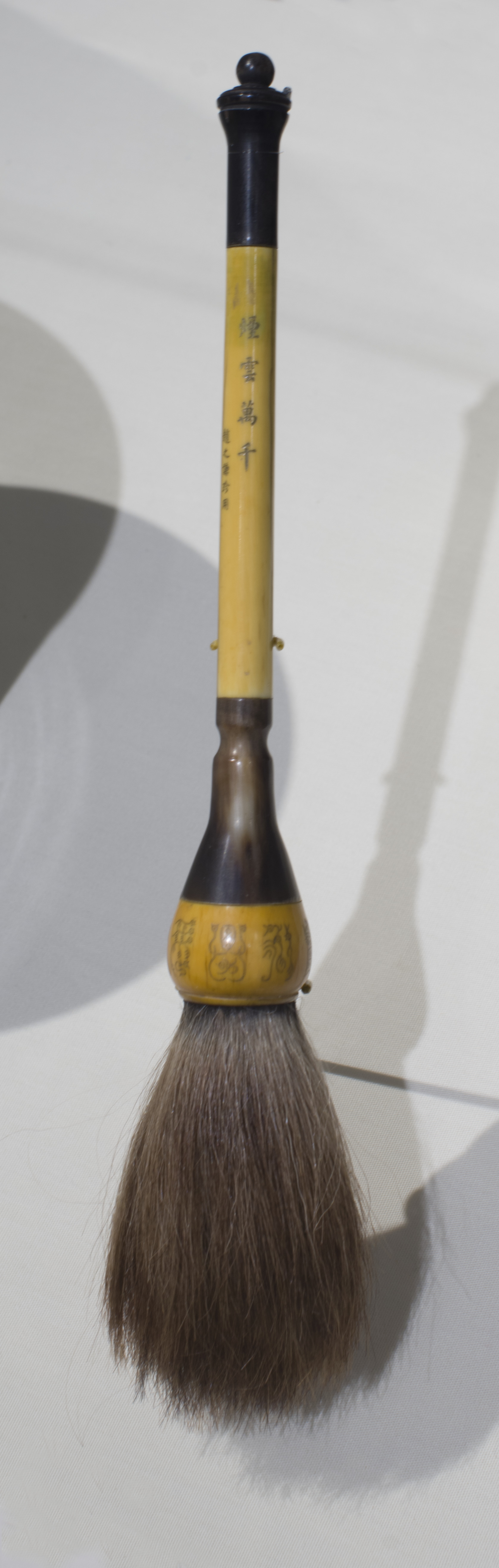 A brush of the artist Zhao Zhiqian (趙之謙; 1829–1884). Named "Mists and Clouds in the Tens of Thousands". With calligraphic inscriptions on the handle.